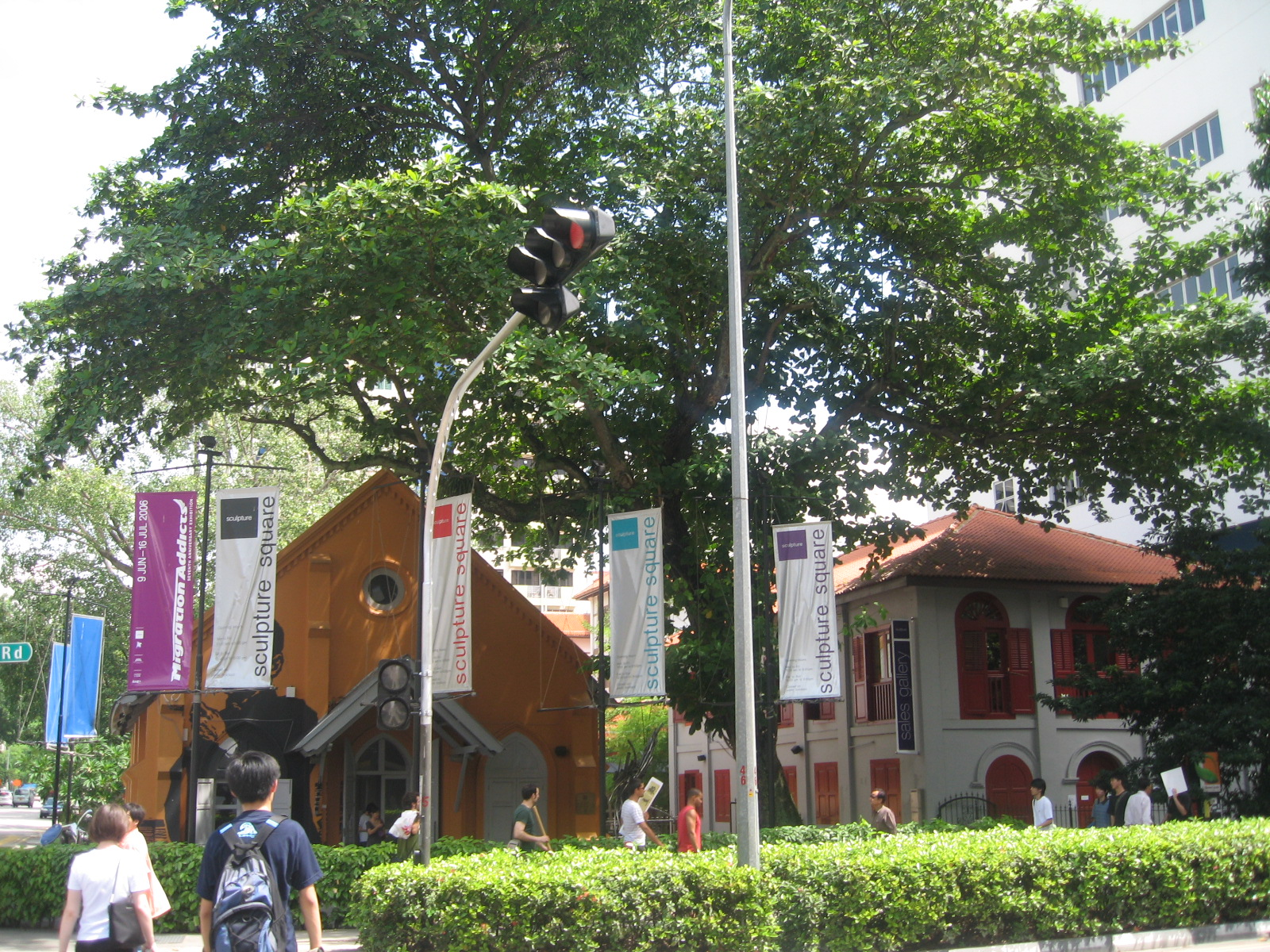 Sculpture Square. Taken by Terence Ong in June 2006.